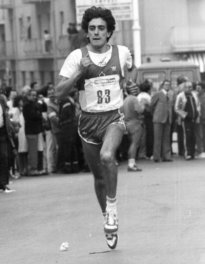 Salvatore Antibo during a race in Italy in 1980s